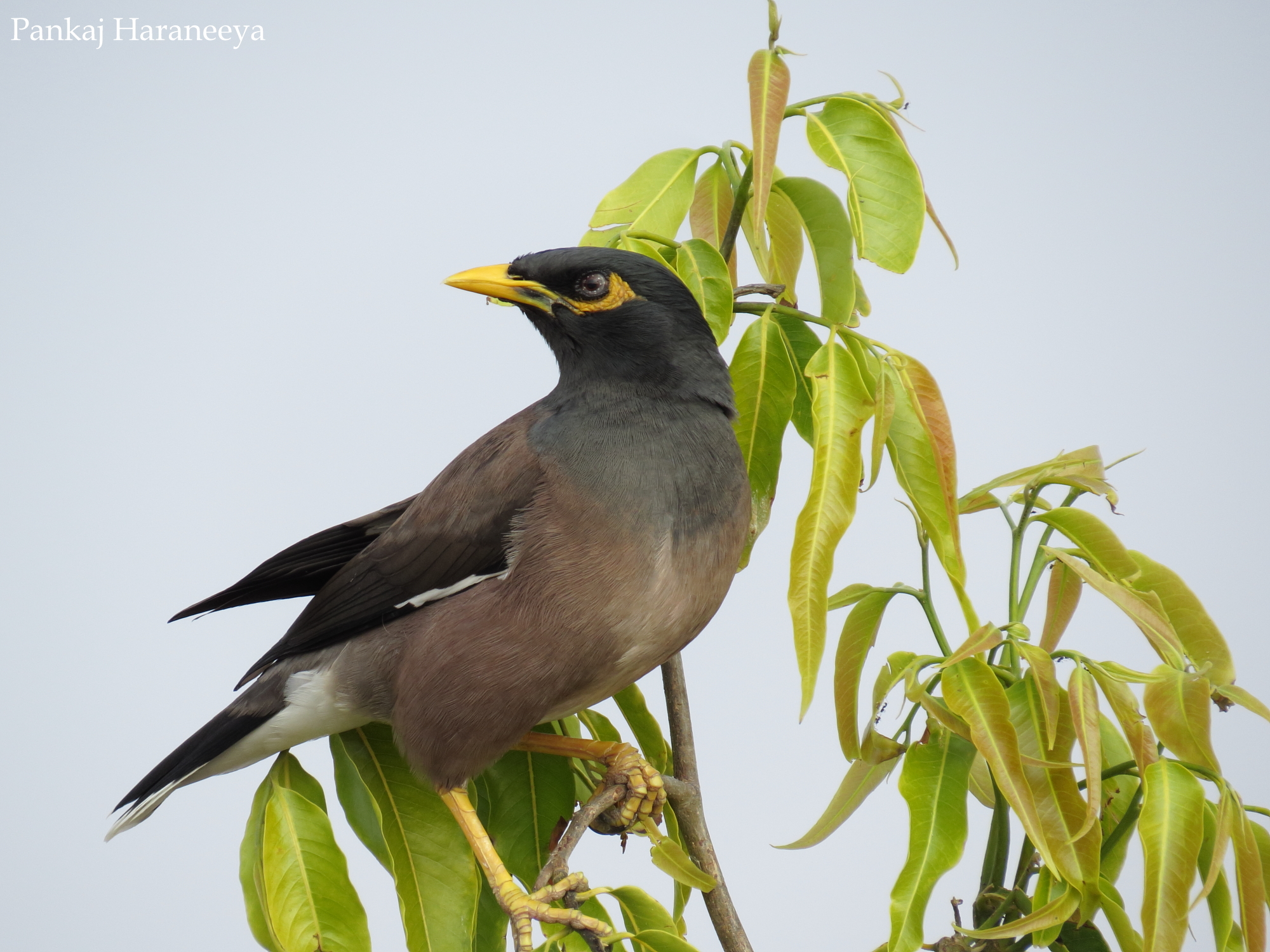 Common myna is perched on a tree. It is looking backward. It is very common bird, here in Gujarat.